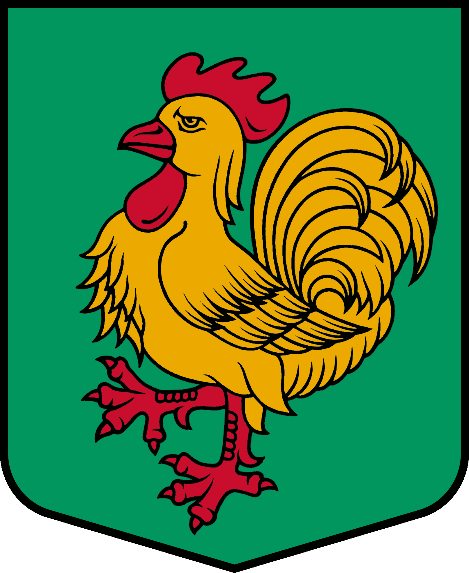 Granted 2000.